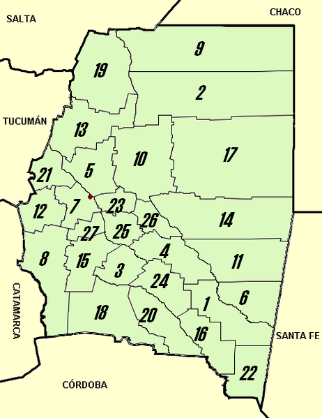 It shows administrative boundaries of Santiago del Estero province in Argentina, its departments and its capital (Santiago del Estero city).